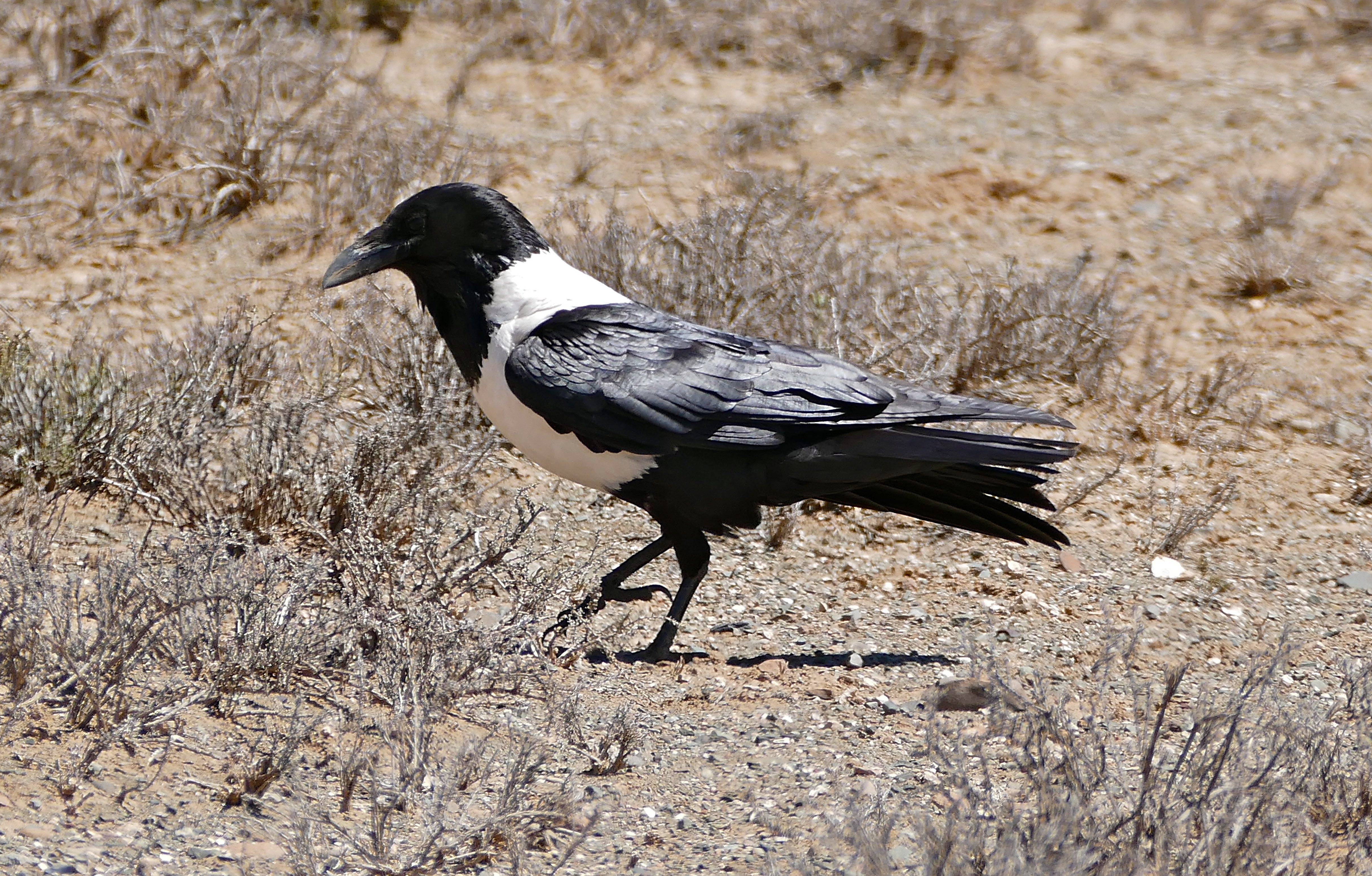 Camdeboo NP, Eastern Cape, SOUTH AFRICA